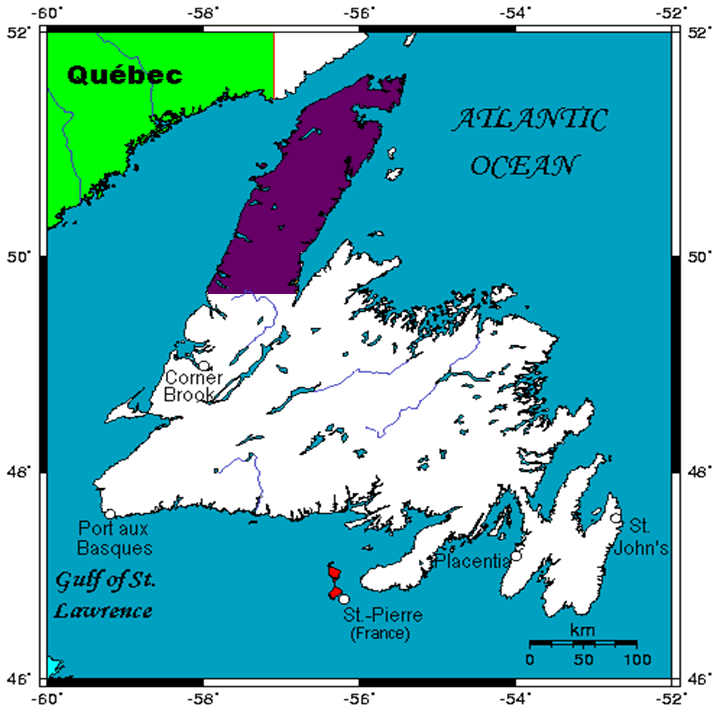 Map Of The Great Northern Peninsula In Newfoundland. Based On The Map On The Newfoundland Page In Wikipedia (Nfldmap.gif). In Public Domain. Changes That Highlight The Great Northern Peninsula Made By Me. The Base Map Was Made On Online Map Creation.